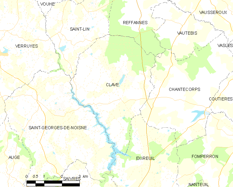 Map of French municipality Clavé